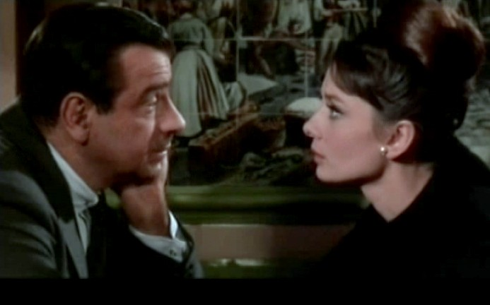 Screenshot of Walter Matthau and Audrey Hepburn from the film Charade